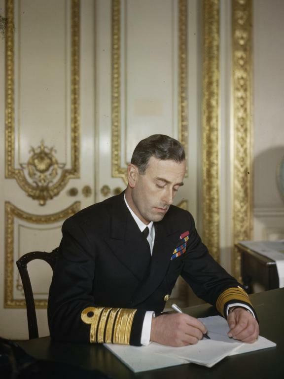 Admiral of the Fleet Earl Mountbatten of Burma Admiral Lord Louis Mountbatten sitting at his desk (close-up, looking down).